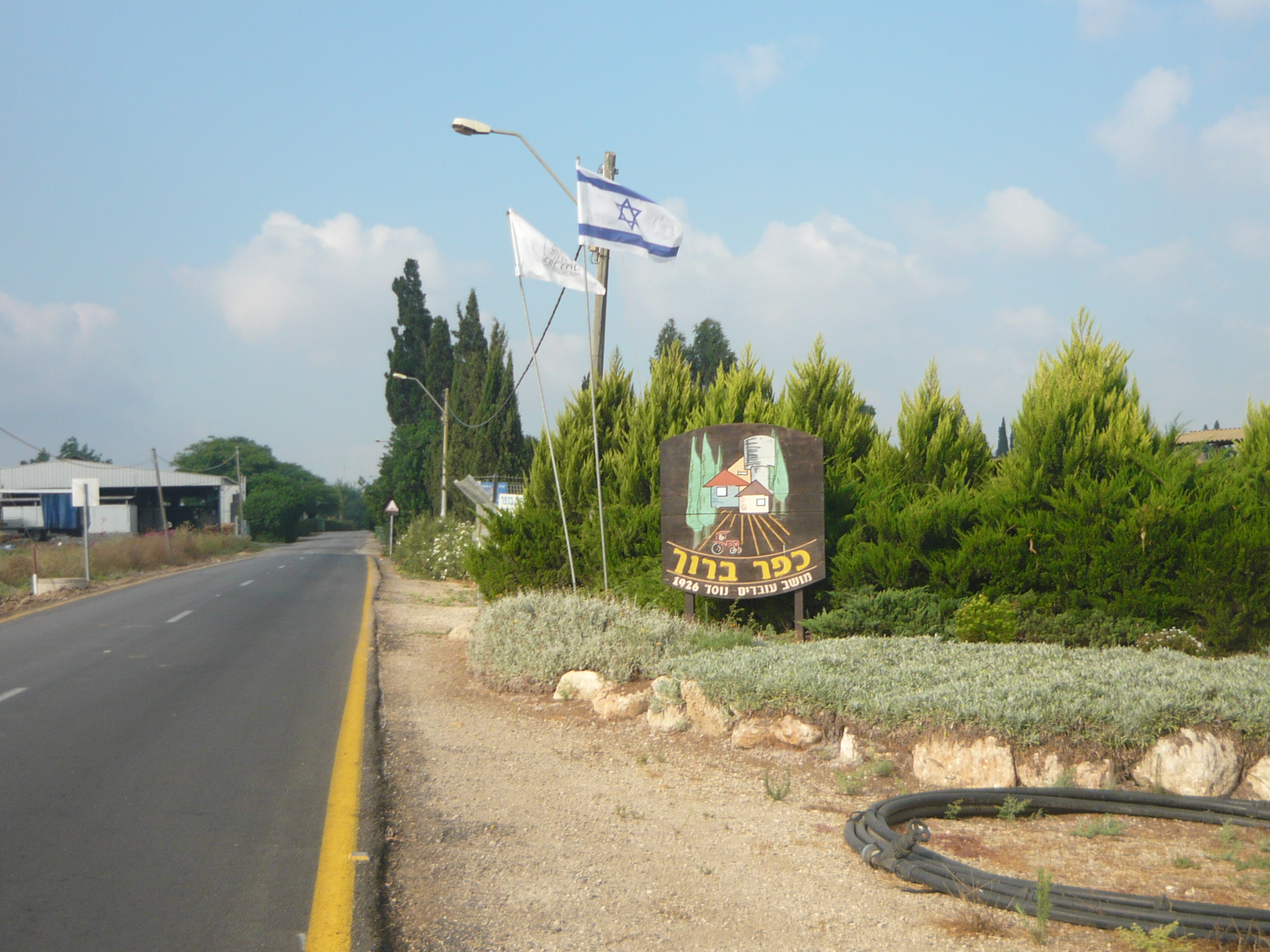 entrence to Kfar Baruch הכניסה לכפר ברוך